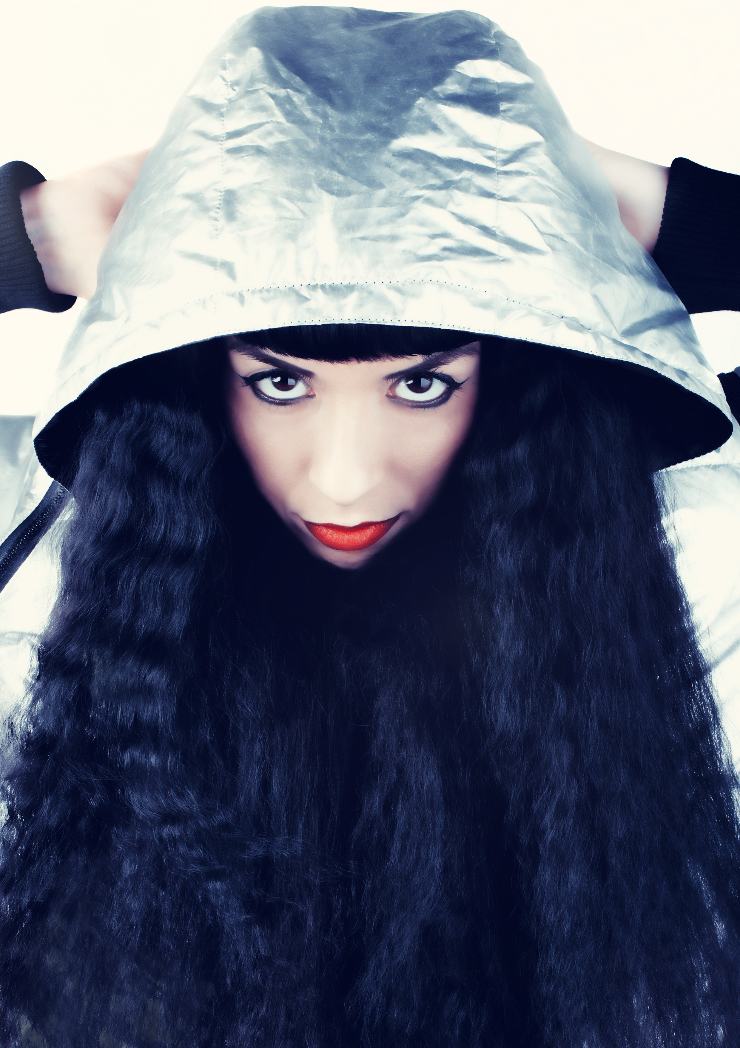 Swedish rapper Gnučči, 2013.